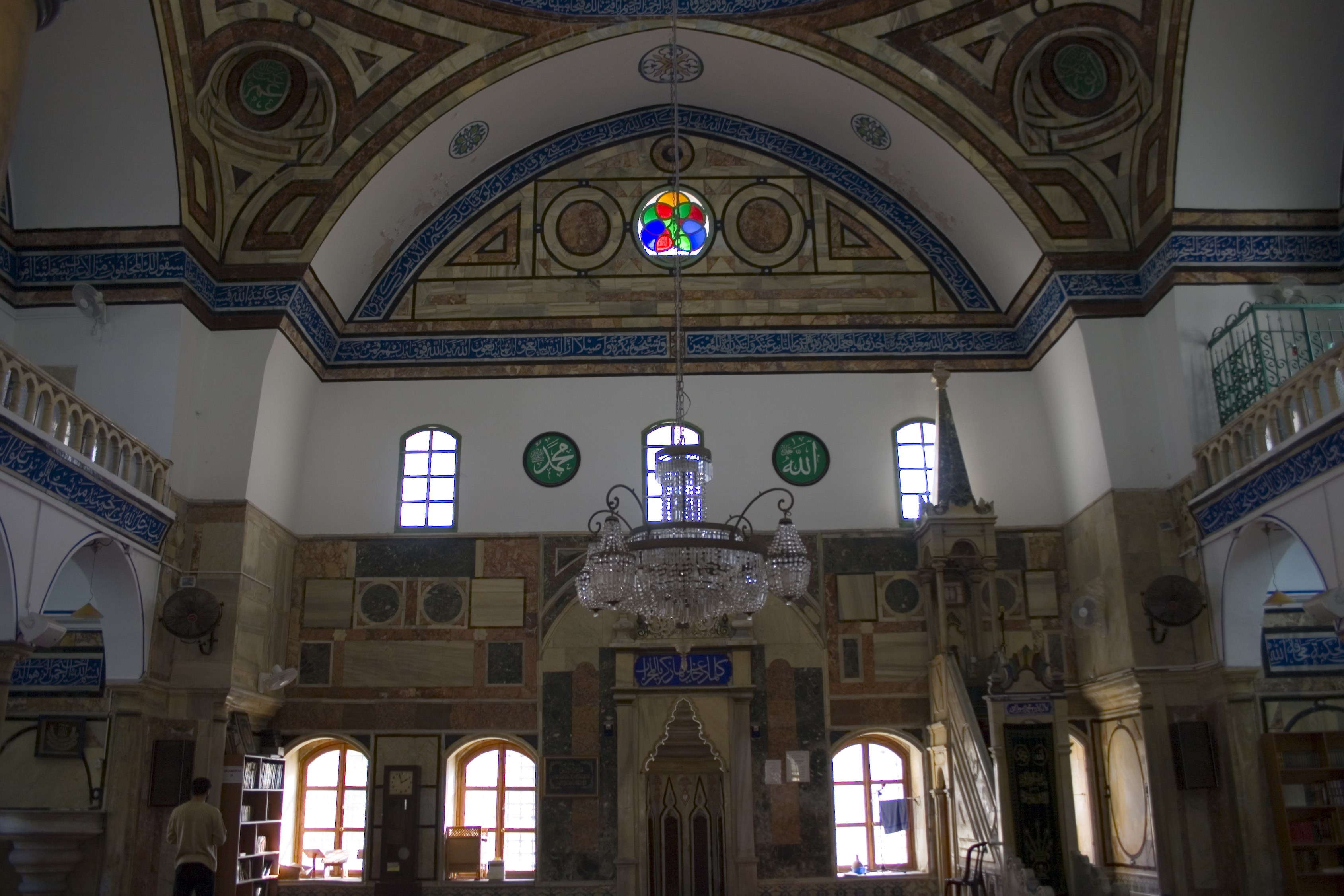 Inside the mosque. Click here to see where this photo was taken.Acre (Akko) - Al Jazar Mosque